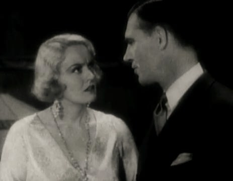 Doris Kenyon and Walter Huston in The Ruling Voice (1931) - trailer (cropped screenshot)